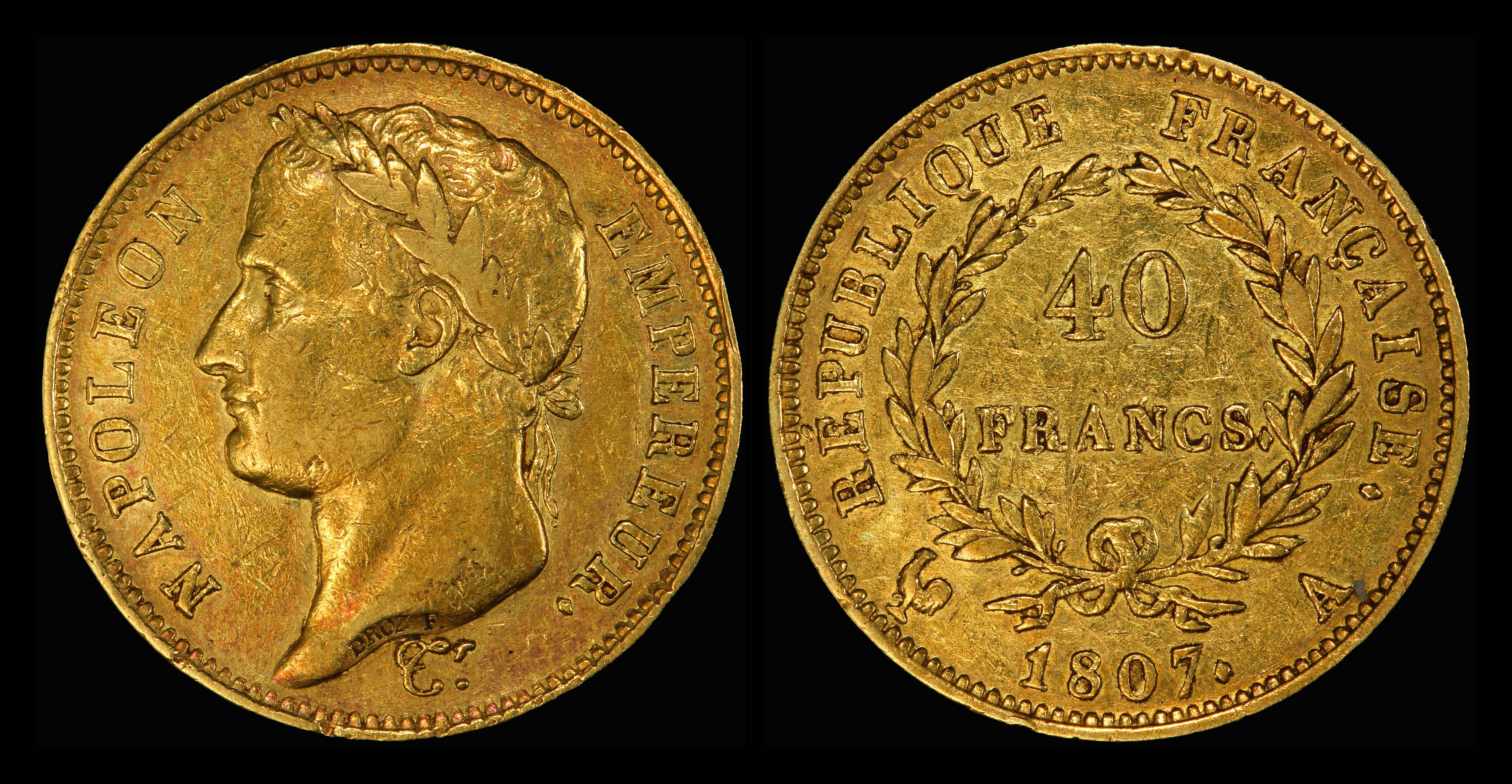 France 1807-A 40 Francs, informally known as the double napoleon.